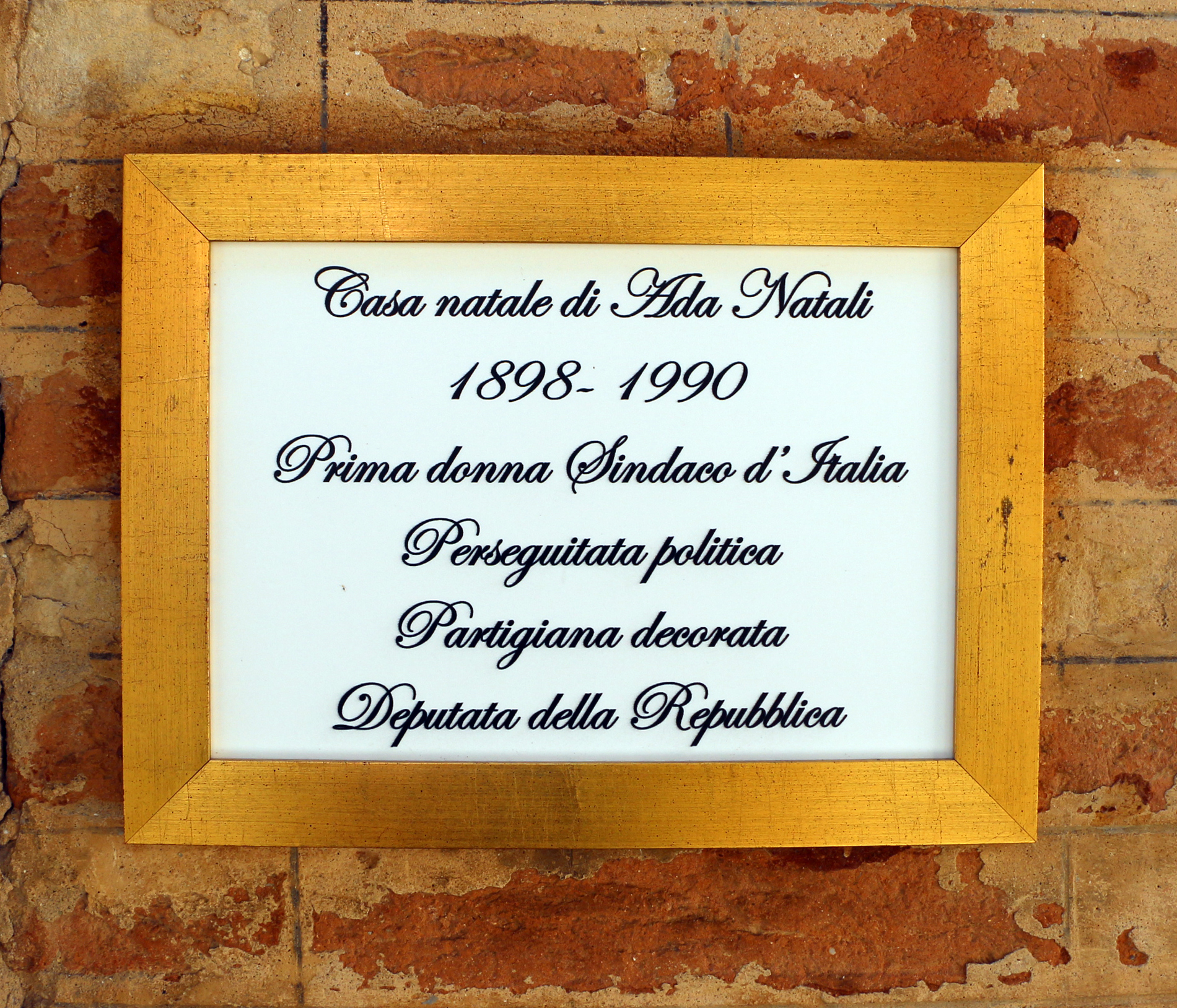 Massa Fermana